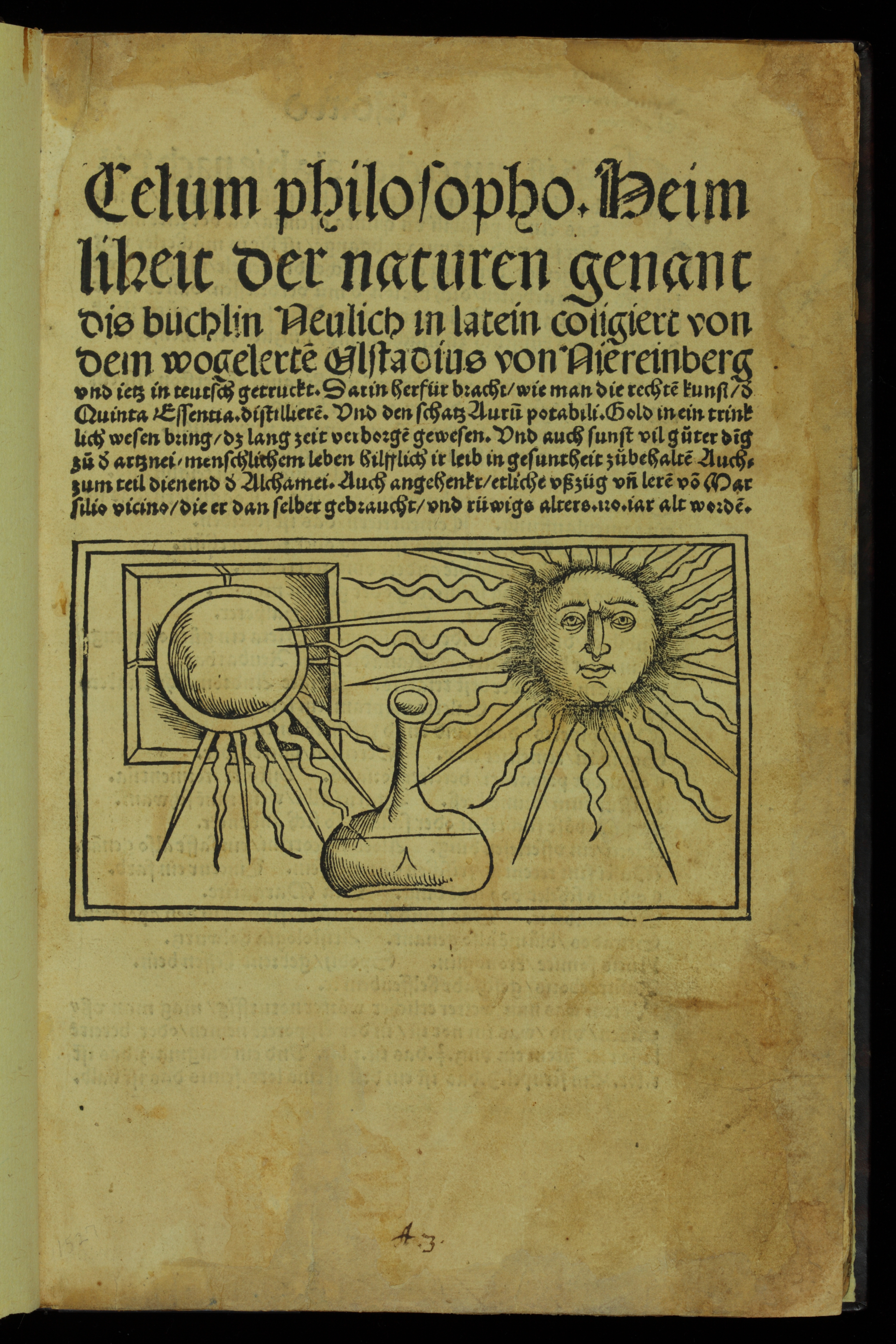 Title page from Celum philosophorum : heimliheit der naturen genant dis buchlin ... Darin herfür bracht, wie man die rechten kunst, und Quinta Essentia, distillieren. Und den schatz Aurum potabili. Gold in ein trinklich wesen bring, zum und artznei, menschlichem leben hilfflich ir leib in gesuntheit zumbehalten Auchzum teil dienend Alchamei. Auch angehenkt, etliche usszüg und leren von Marsilio vicino, die er dan selber gebraucht, und rüwigs alters. 120. iar alt worden / ... neulich in latein coligiert von dem wohlgelehrtem Ulstadius von Niereinberg und jetz in teutsch getruckt ... by Philippus Ulstadius. Strassburg : Johannes Grienynger, 1527. The title page shows a moon and sun on either side, and a flask in the center. Ulstad, who wrote some of the first books on chemical medicine, paved the way for a closer link between alchemy and medicine. His lucid, concise prose made Coelum philosophorum one of the most reissued chemical-medicine books of the 16th and 17th centuries.